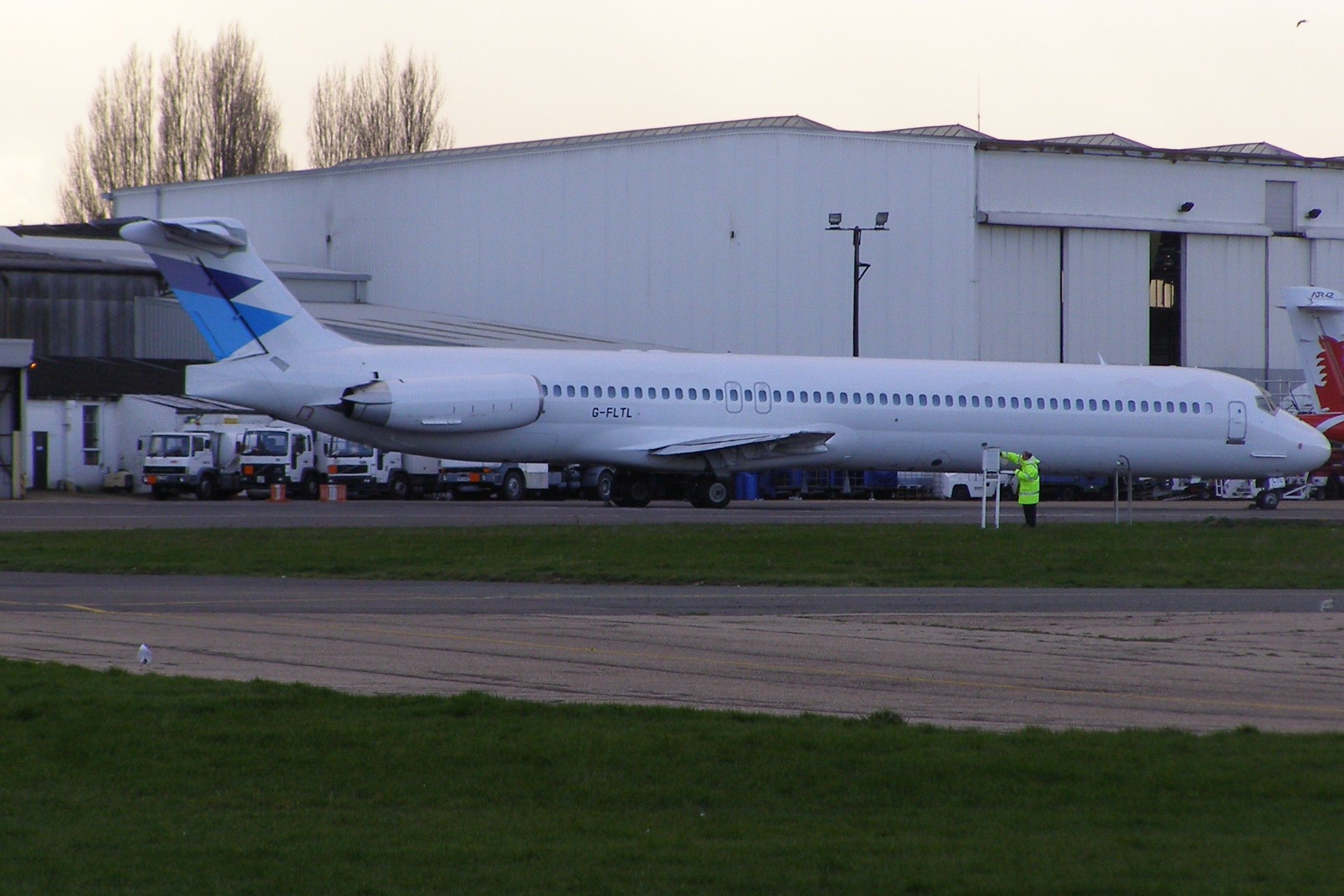 McDonnell Douglas MD-83 G-FLTL of Flightline Limited at Southend Airport, England